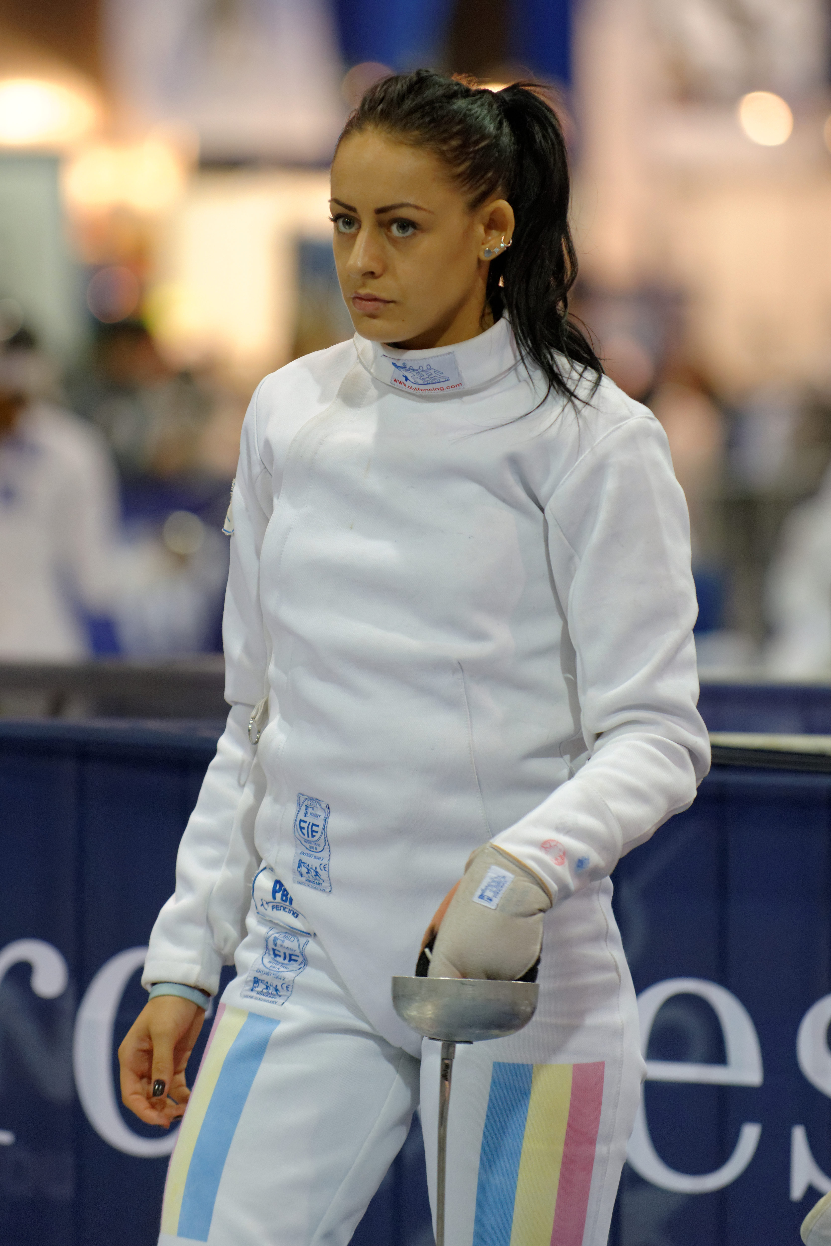 Maria Udrea competes in the women's team épée during the 2013 World Fencing Championships 2013 at Syma Hall in Budapest, 11 August 2013.